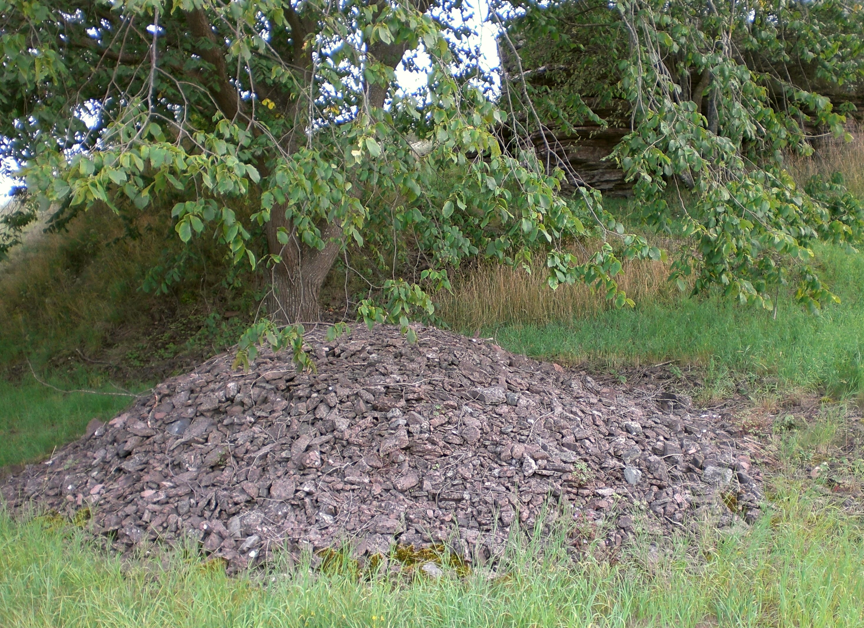 A heap of votive deposit stones just below Saint Elof's Well (RAÄ number Köping 41:1) situated between Borgholm and Köpingsvik, Borgholm municipality, Öland, Kalmar county, Sweden.